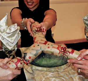 A 3 sided cracker that adds a quirky twist to the Christmas experience.